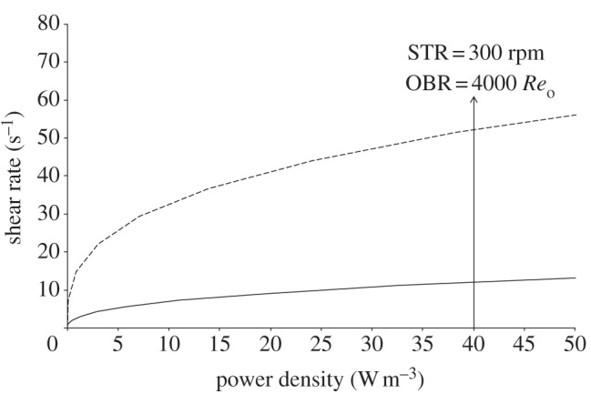 Shear rate of standard tubular reactor (dotted) is higher than COBR for all levels of power density. Taken from Abbott et al.